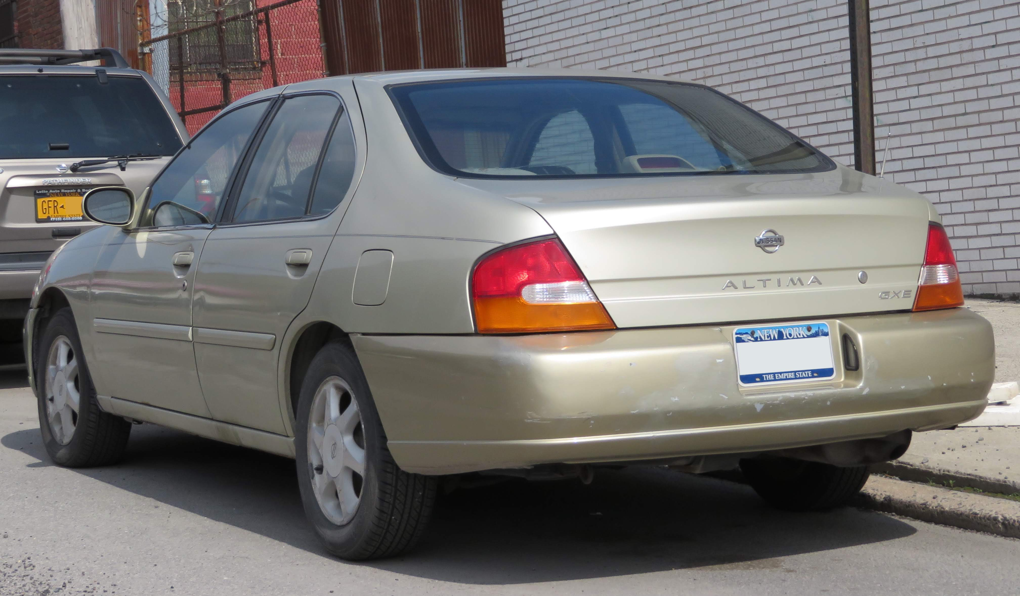 Photographed in Flushing(Queens), New York